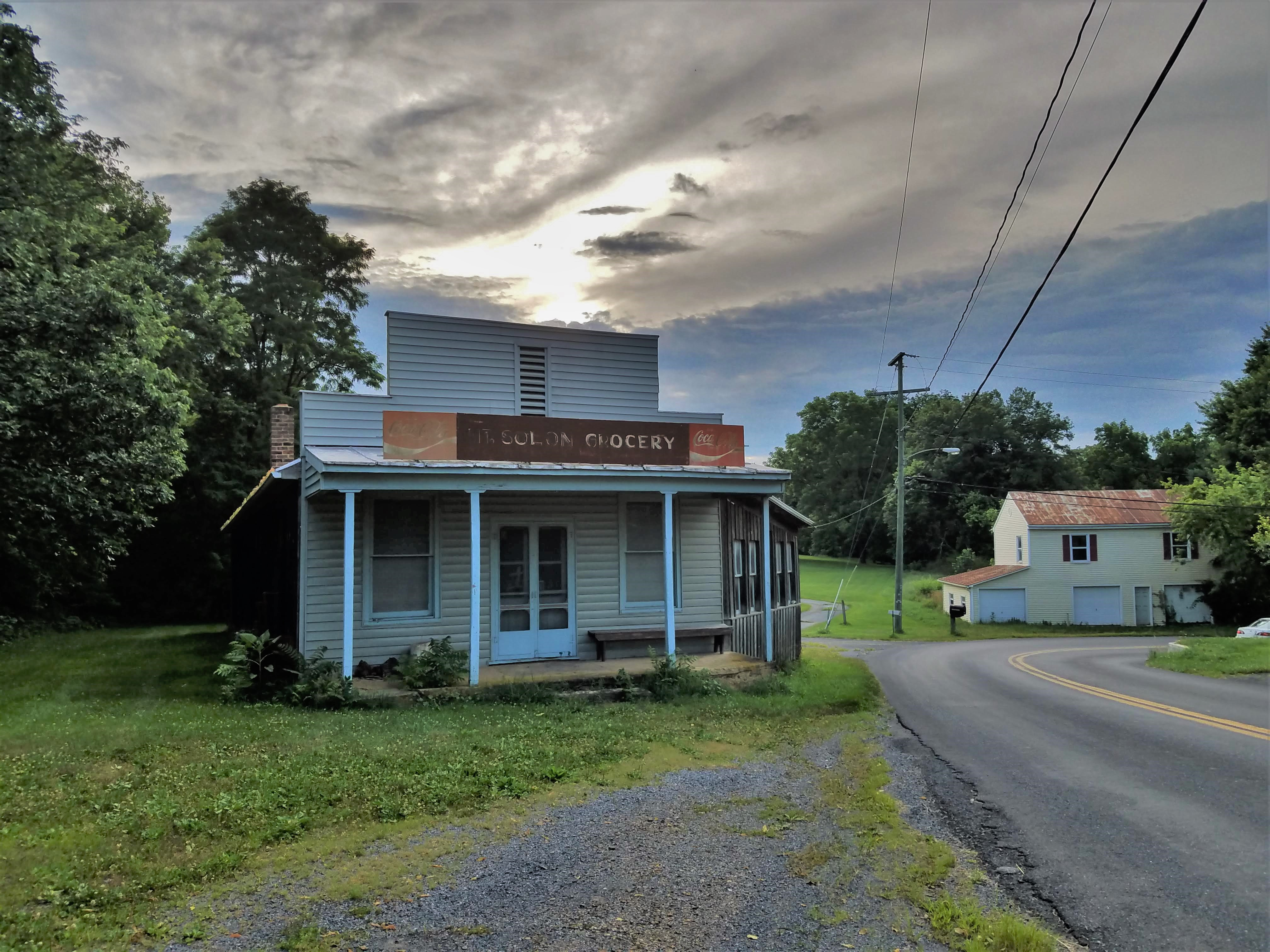 Mt. Solon Grocery on Natural Chimney Road, across the street from the old Mt. Solon bank.